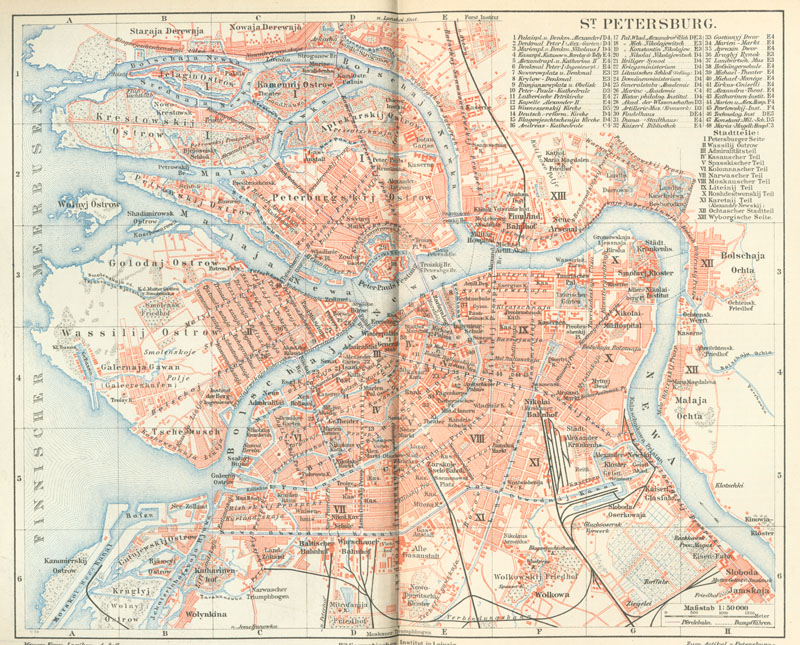 This is a German city map of St. Petersburg, Russia, page 290b of 1052, in Volume 14 of the German illustrated encyclopedia Meyers Konversationslexikon, 4th edition (1885-1890), fraktur font.